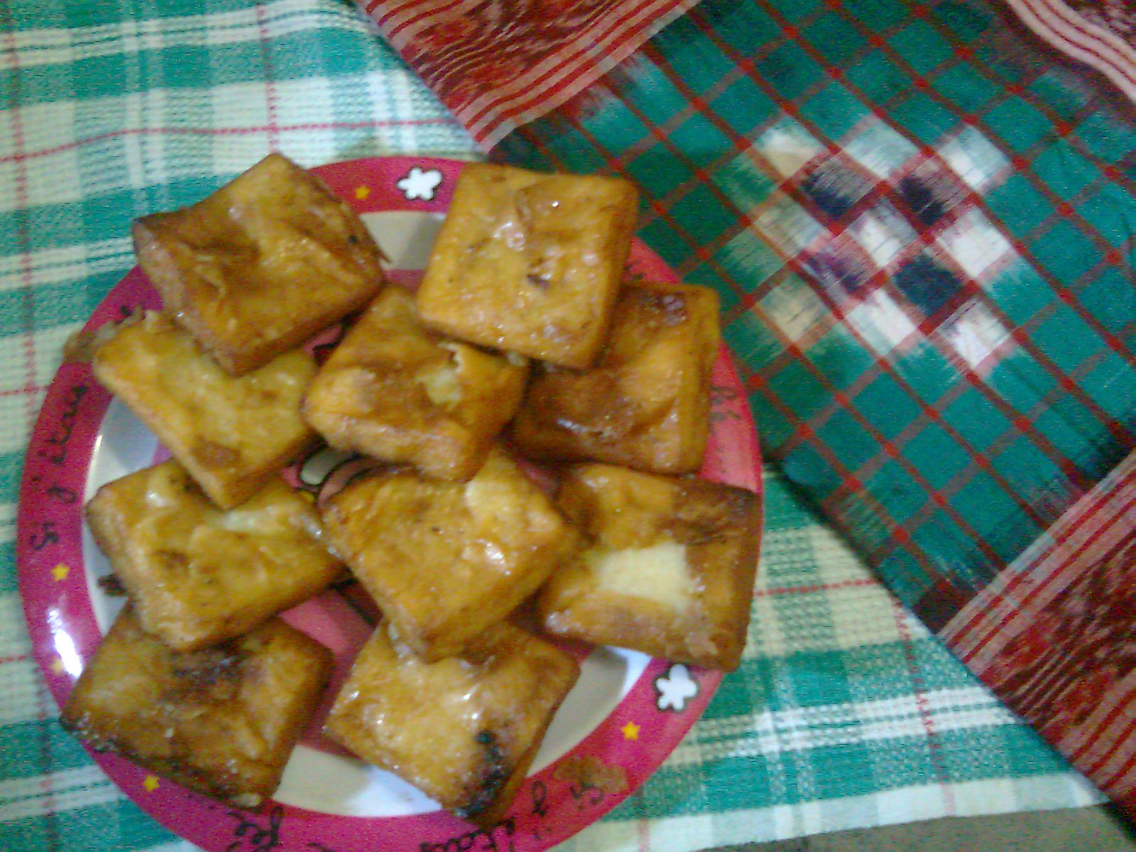 Chandrakanti, a pitha made from green gram and rice powder in the state of Odisha, eastern India